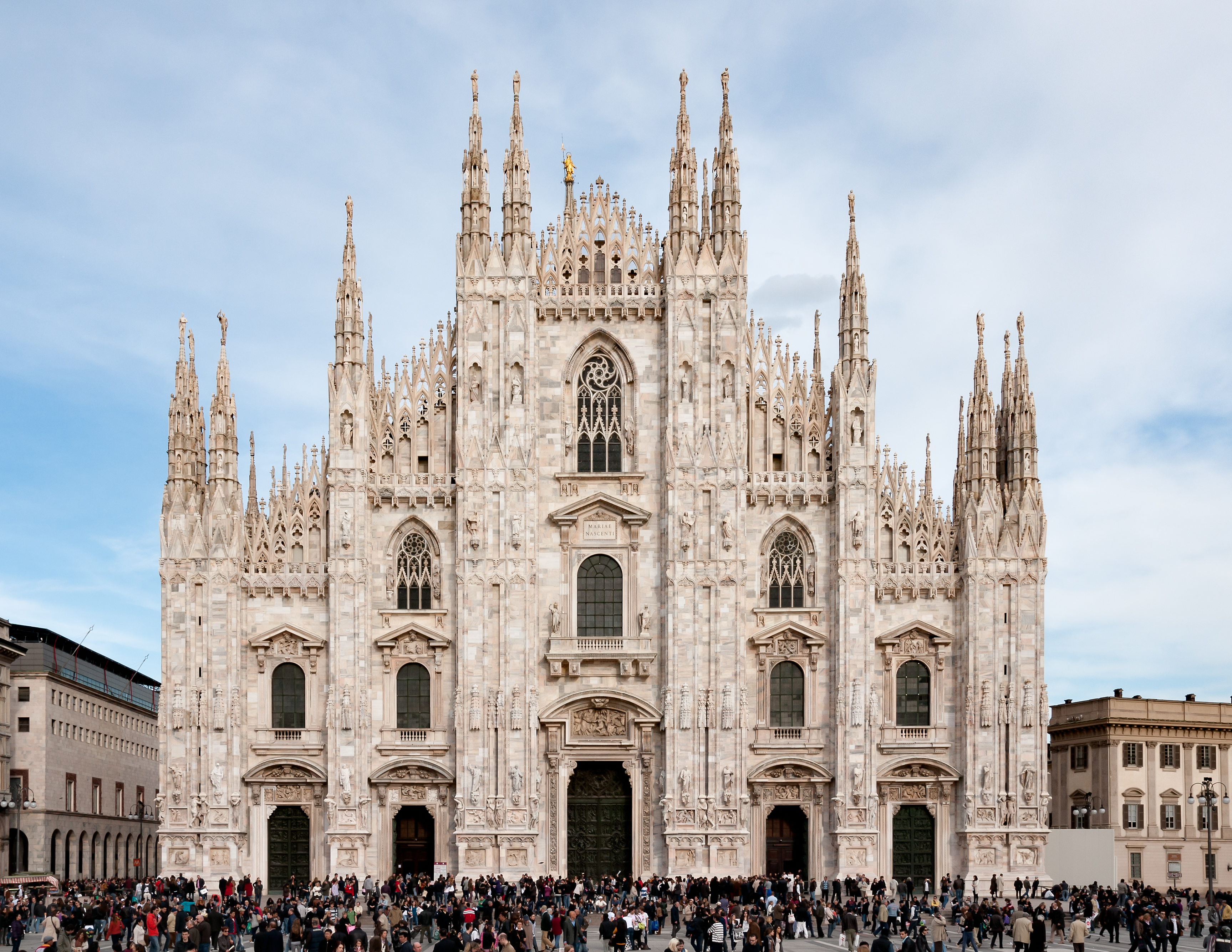 Milan, Italy: Exterior view of Duomo Milano